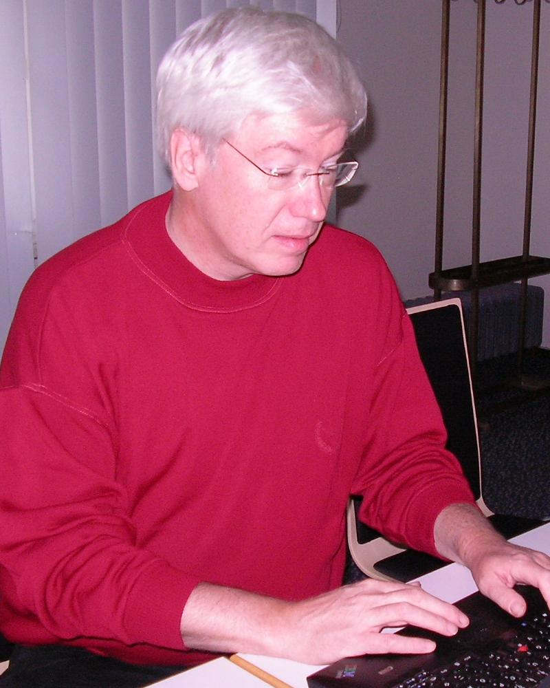 Stephan Busemann, German Correspondence Chess Meeting 2010 at Bad Nenndorf, Photographer Gerhard Hund